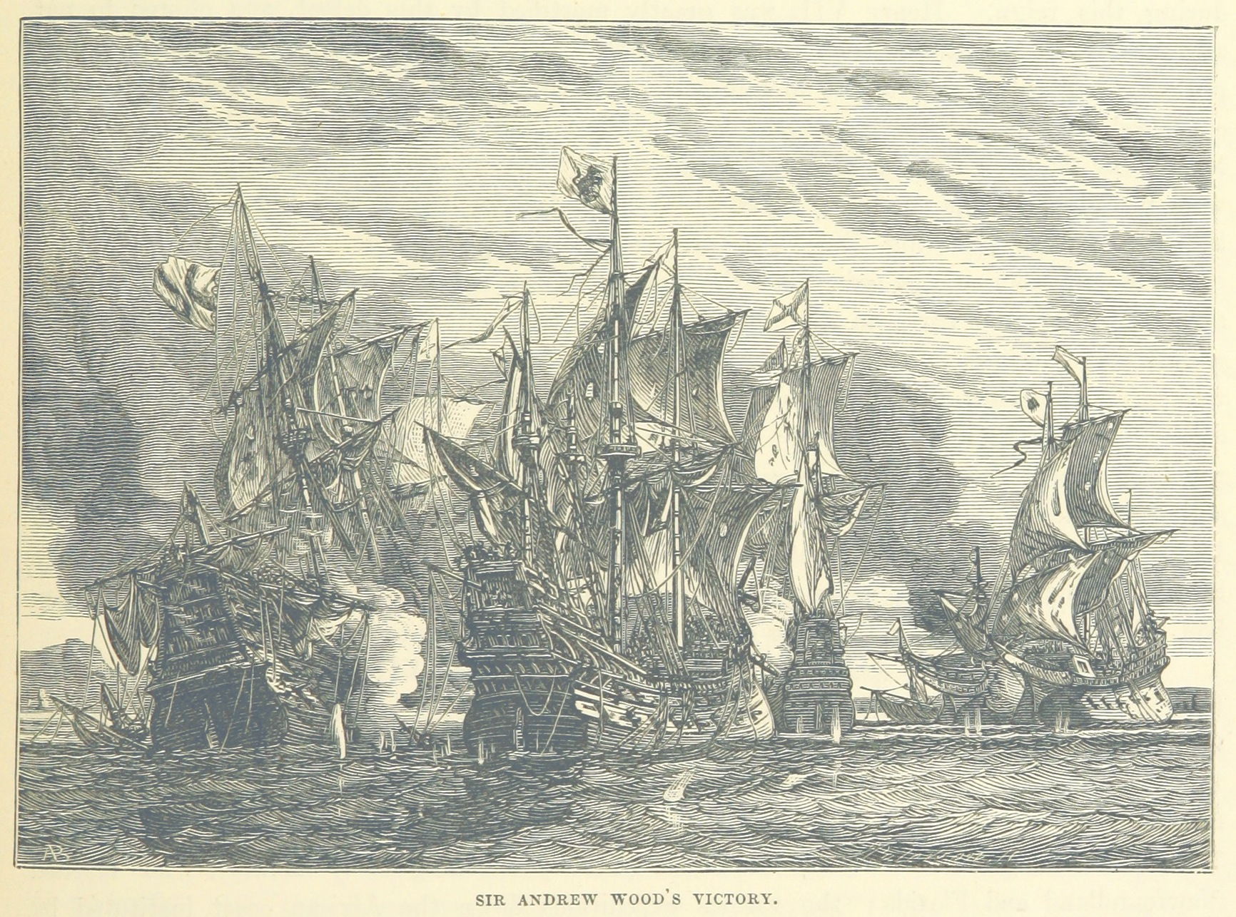 An illustration of Andrew Wood of Largo's victory over Stephen Bull in 1490.